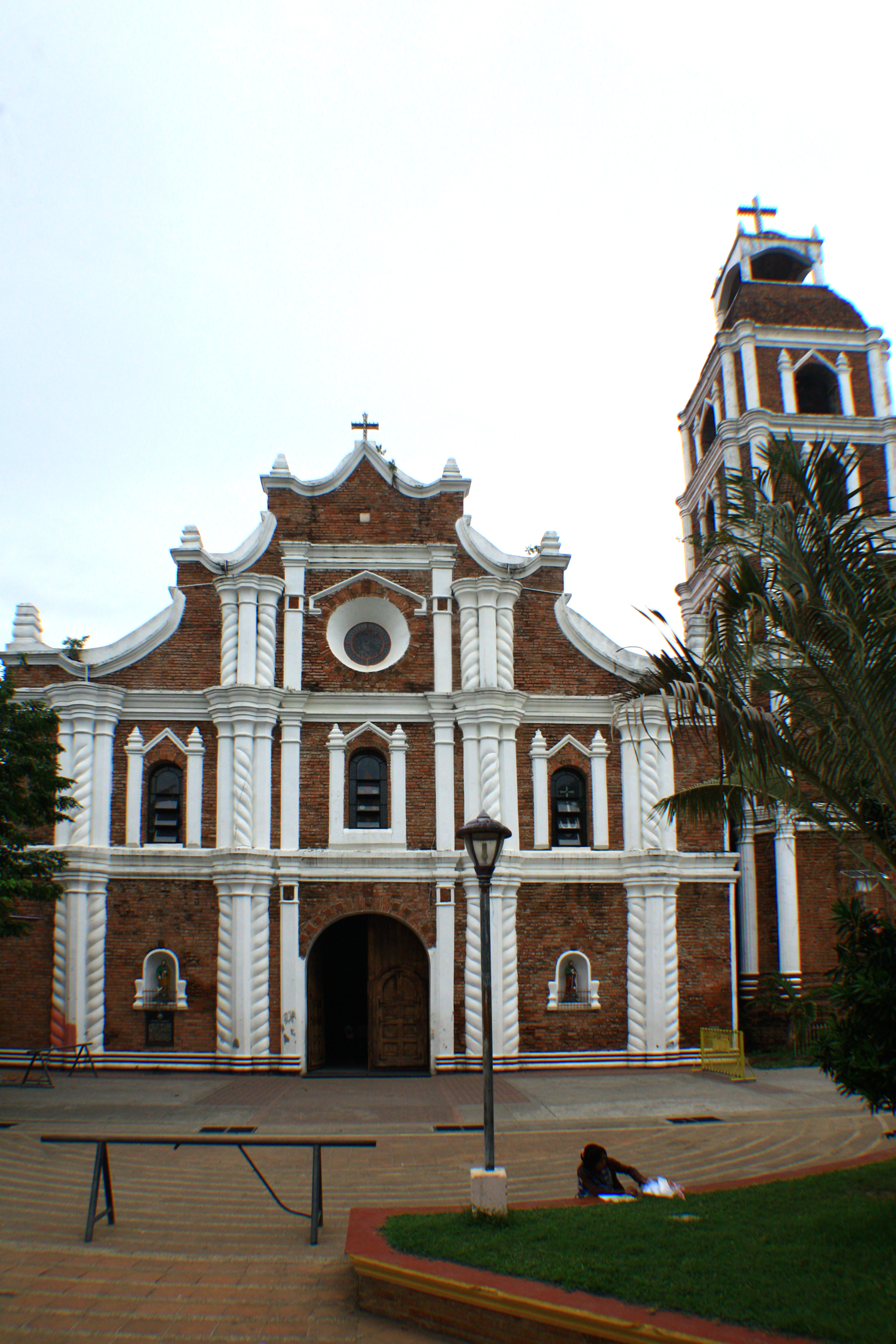 Saint Peter Metropolitan cathedral